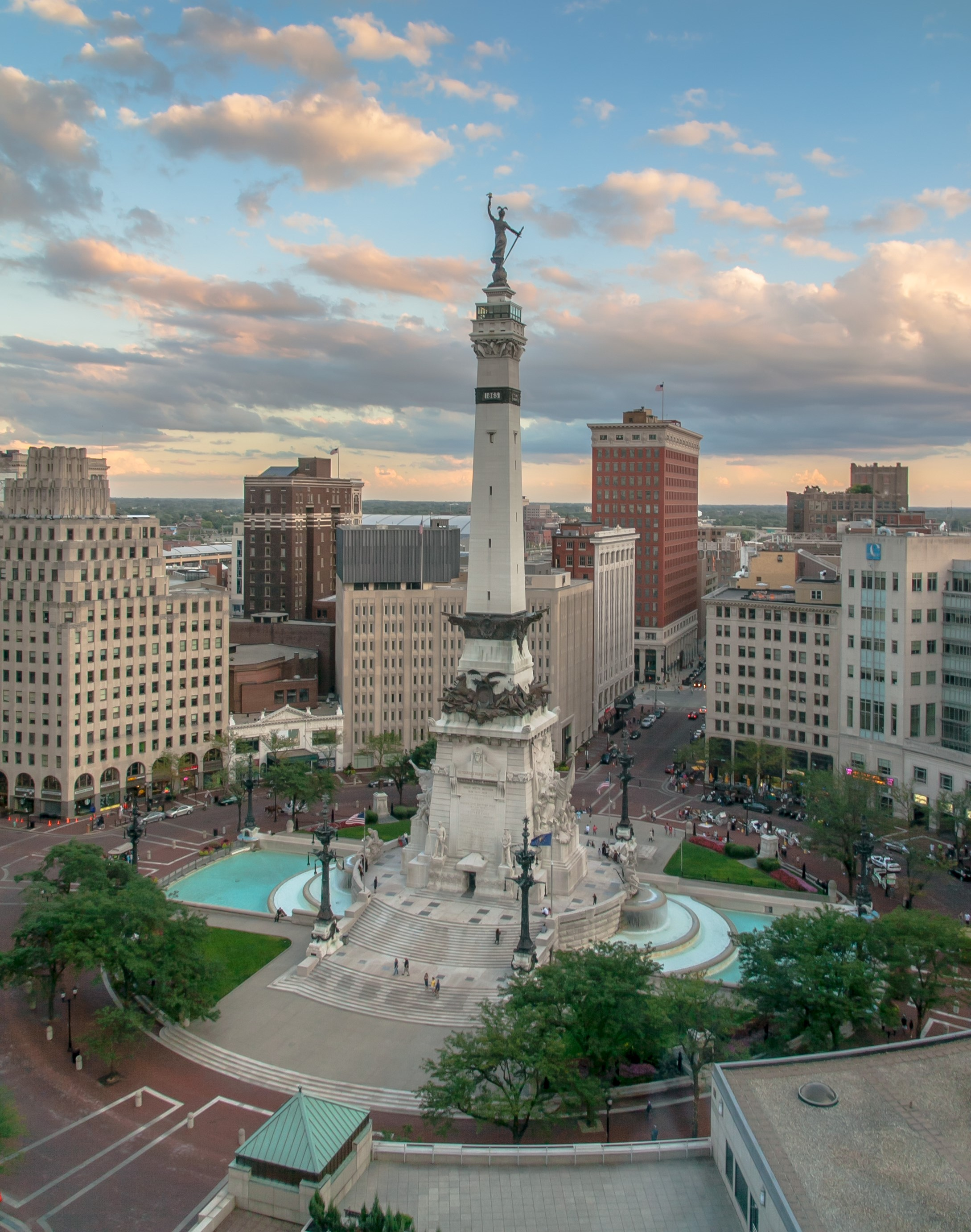 This photo was shot looking southeast across Monument Circle from the Sheraton Indianapolis City Centre.